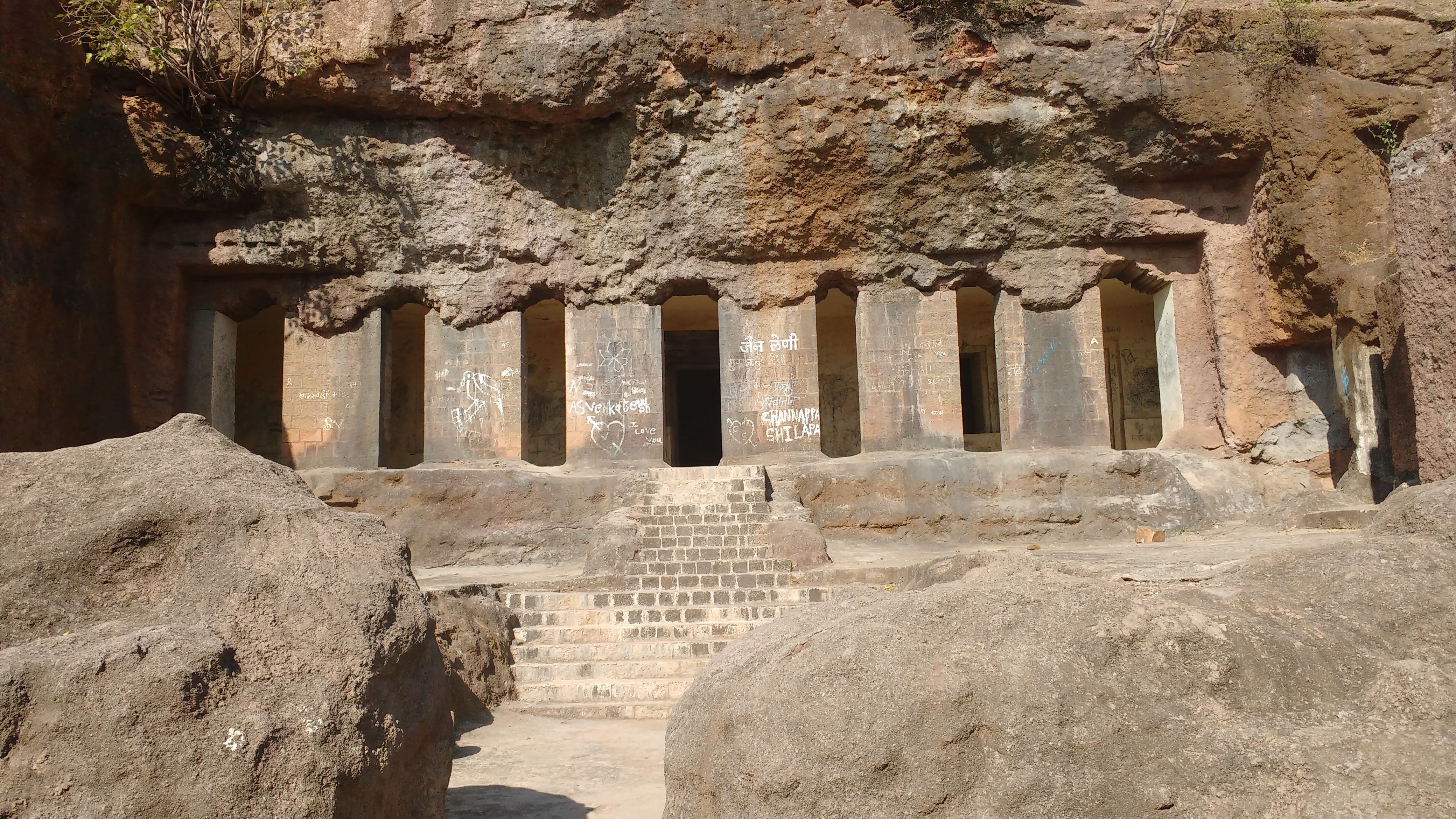 Dharashiva Leni